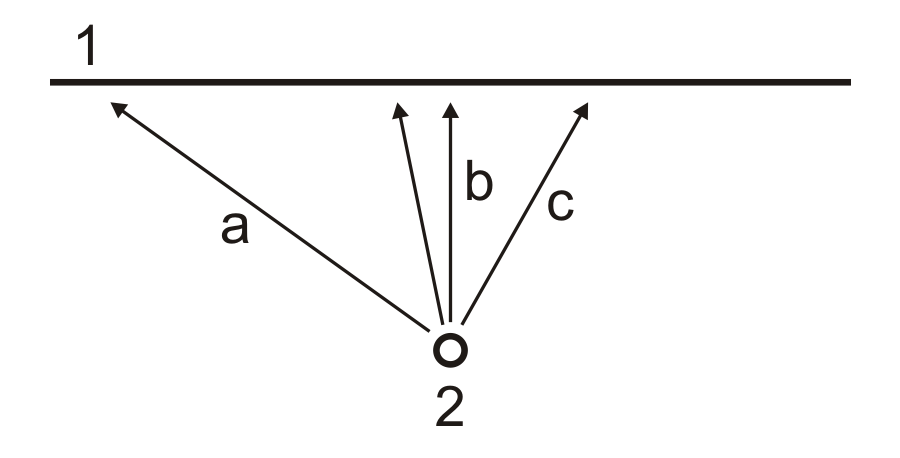 Wall